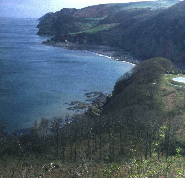 Woody Bay Looking eastwards along the coast.